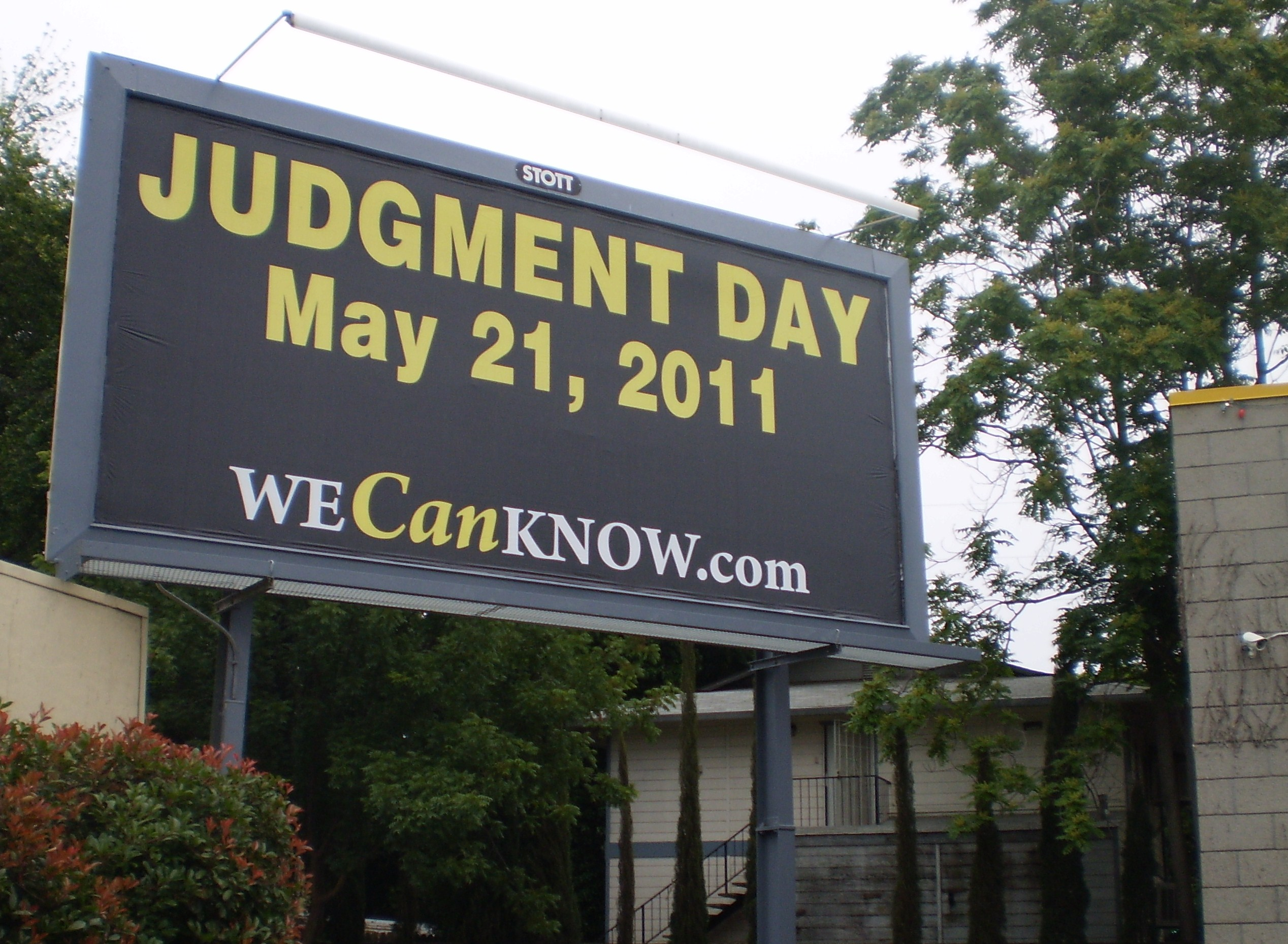 A different style billboard from Family Radio's May 21 2011 rapture prediction in Chico, California. Creator is unclear - despite Harold Camping's plans to take the billboards down this one was still up one week later. Features no logos or artwork.